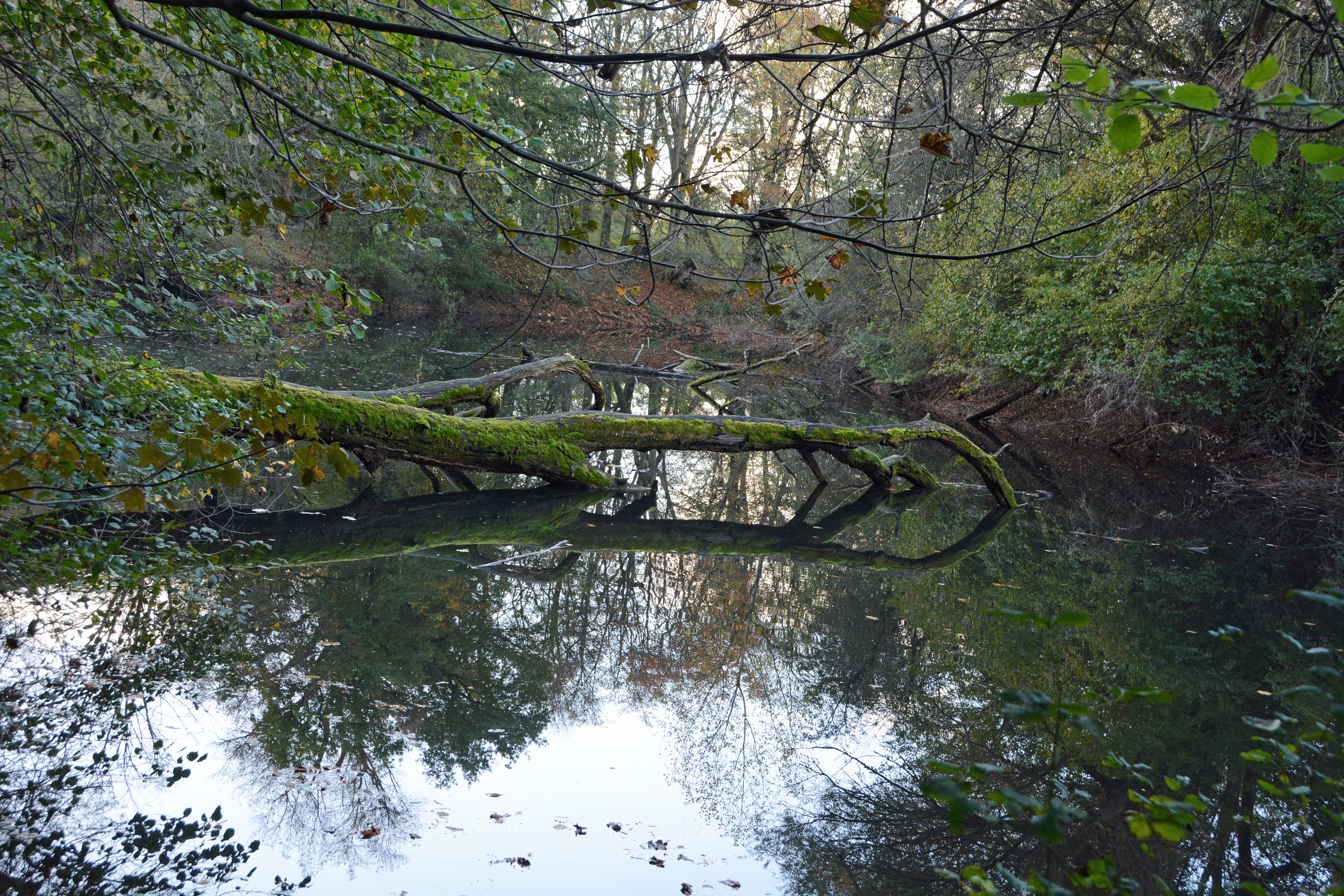 Forest park, Mannheim, Germany, creek Bellenkrappen near nature reserve Reißinsel